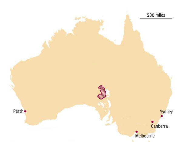 This picture shows the area of the Anna Creek Station in Australia.